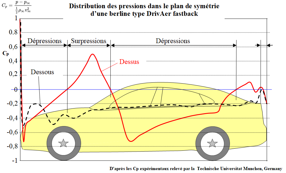 Distribution of Cp on a sedan Drivaer fastback in its plane of symmetry. In red the distribution of Cp on the top of the car, in black dashes the distribution of Cp under the car. According to the values recorded experimentally by the Technische Universitat Munchen, Germany (corrected for the influence of the restraint mast (see the text Simulation of external aerodynamics of a model driver with the LBM on GPGPUs, Pasquali, Schönherr, Geier & Krafczyk